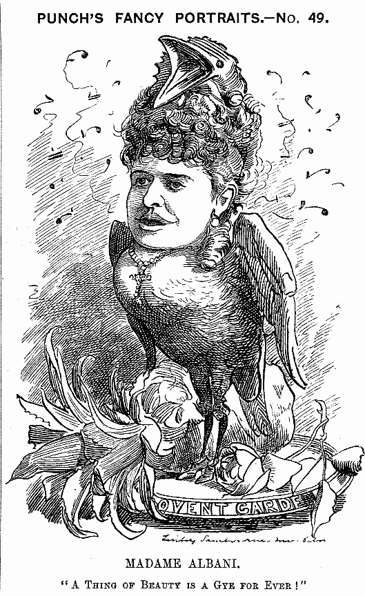 1881 caricature of Emma Albani.